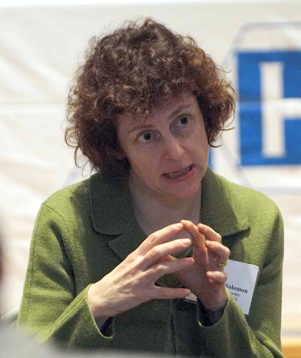 Photograph of professor of philosophy Miriam Solomon, taken at the 2006 Gordon Cain Conference, 8 April 2006, at the Chemical Heritage Foundation, Philadelphia, PA, USA.